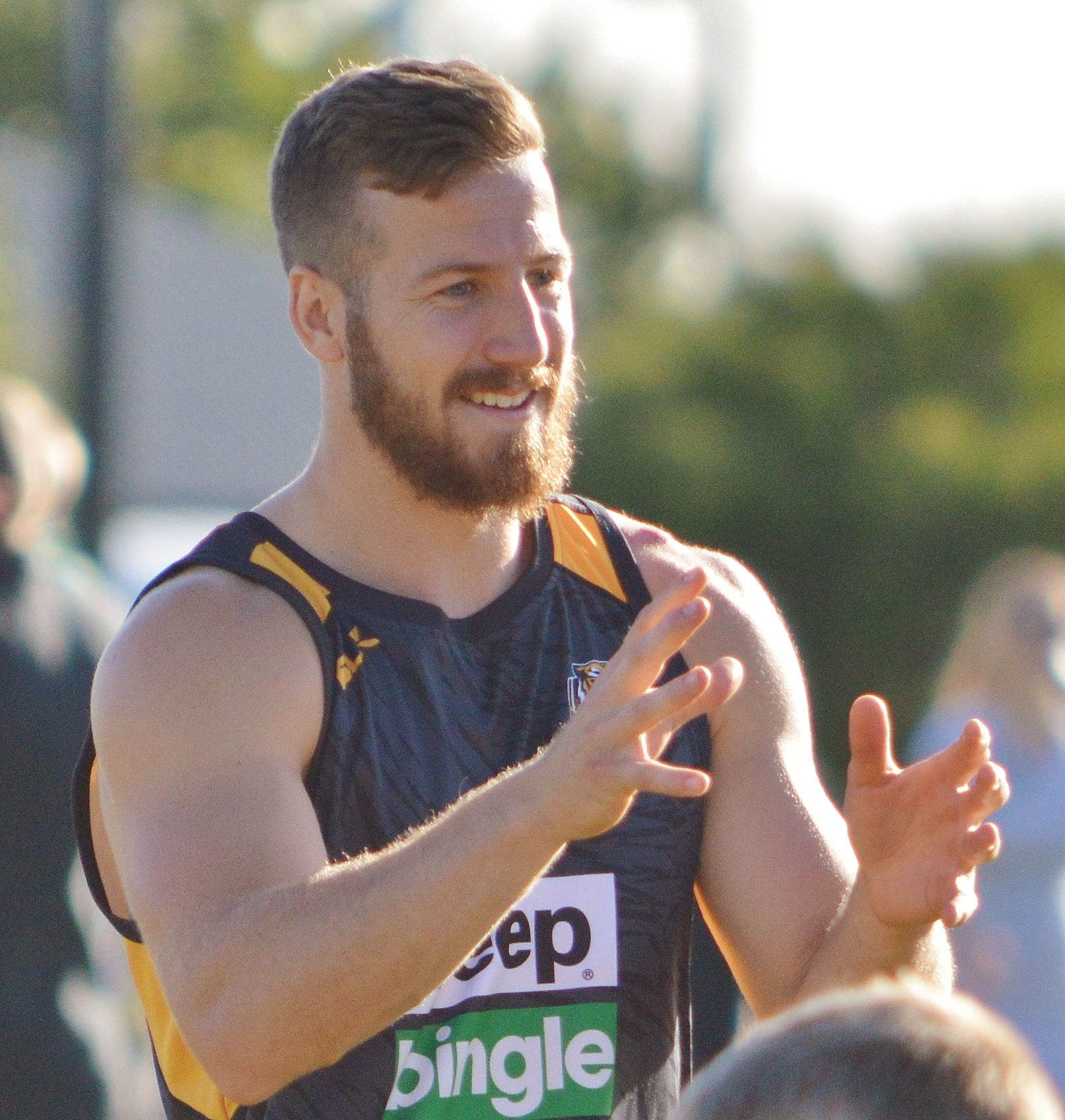 Kane Lambert at the Richmond Football Club family day in Beaconsfield on 20 December, 2016.